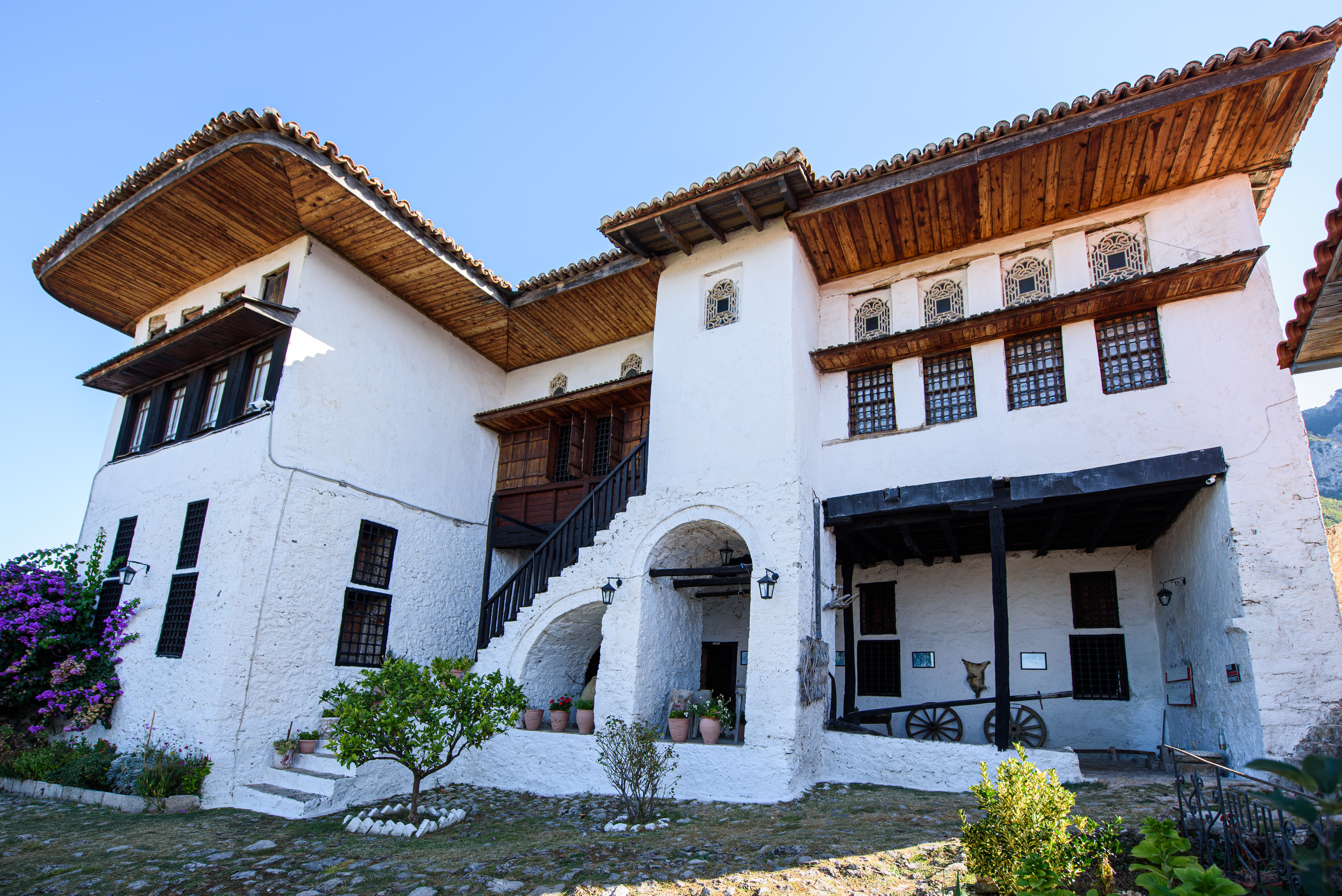 Photo realised during the expedition around Albania for the project The Albanian House